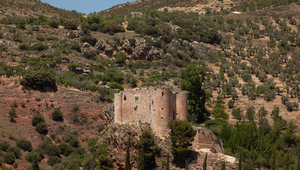 Castillo de Alburquerque; Huelma, Andalucía, Jaén, Spain; ; ref: PM_091234_E_Huelma; ; Photographer: Paul M.R. Maeyaert; © Paul M.R. Maeyaert; ; Cultural heritage; Cultural heritage/castle; Europeana; Europe/Spain/Huelma